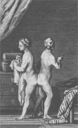 Depiction of Helen and Judith of Szony circa the 19th century.